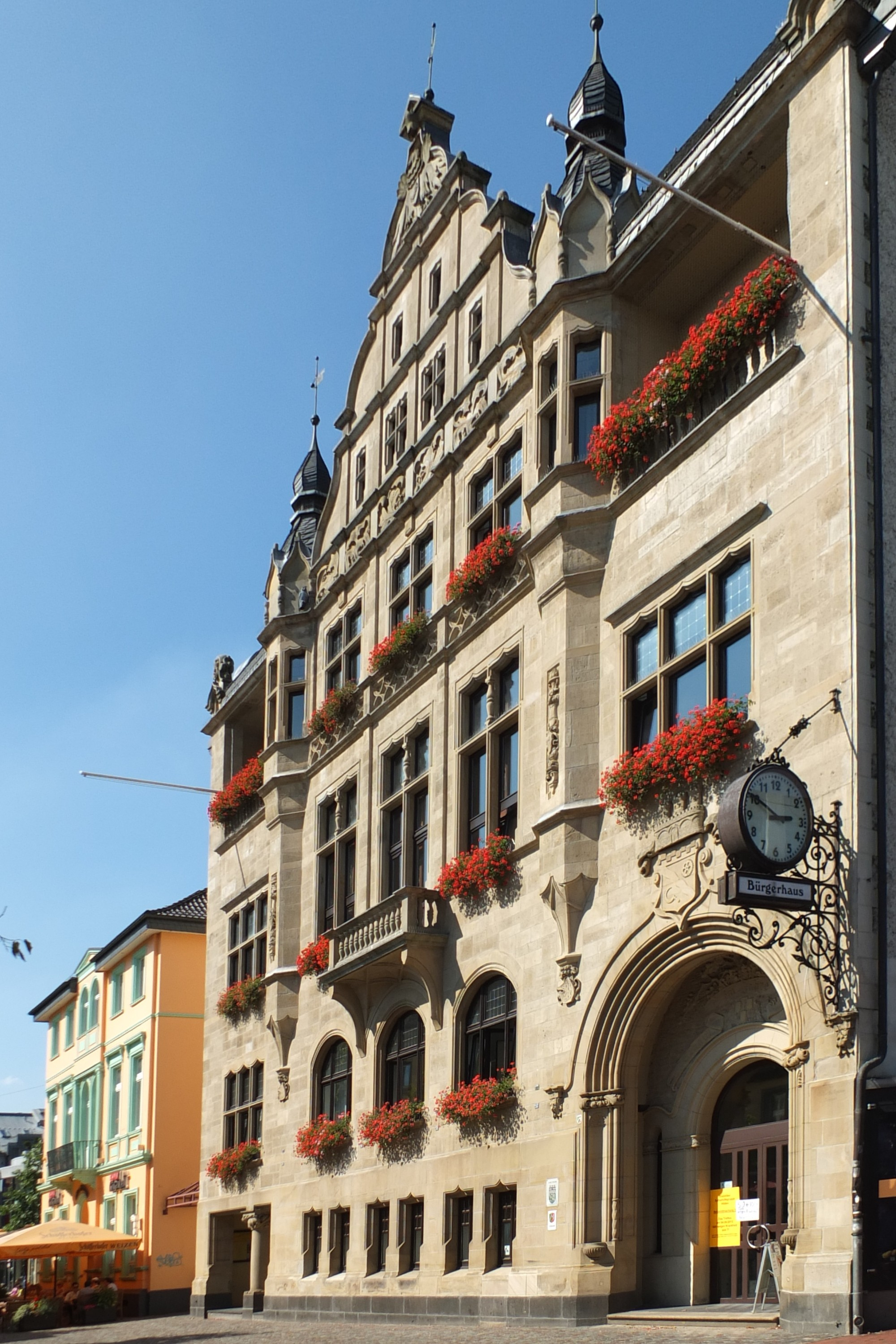 community center, Mittelstr. 40, Hilden (Germany), built 1899–1900 as town hall by architect Walter FurthmannThis is a photograph of an architectural monument.